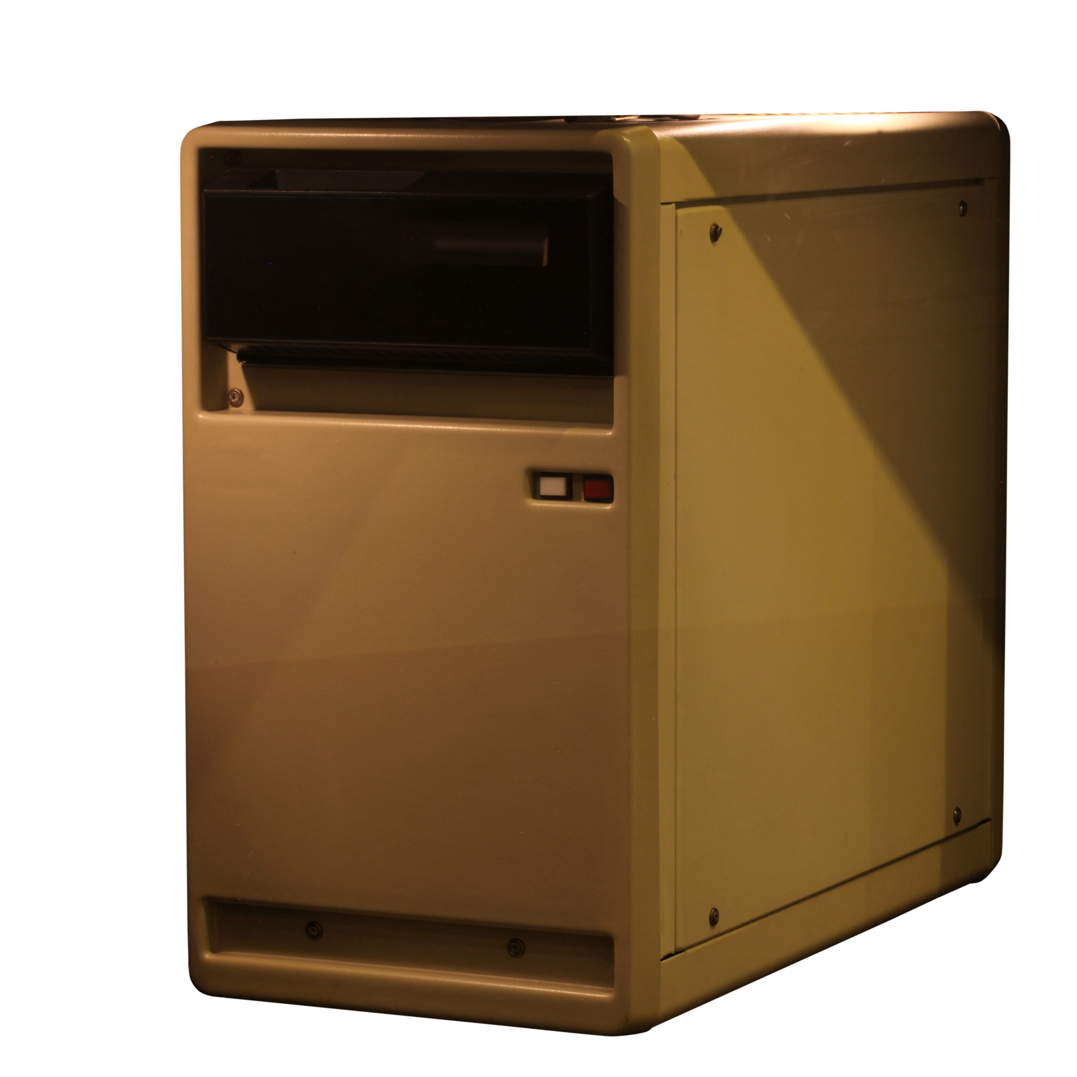 User:Rama/Bolo/Lilith